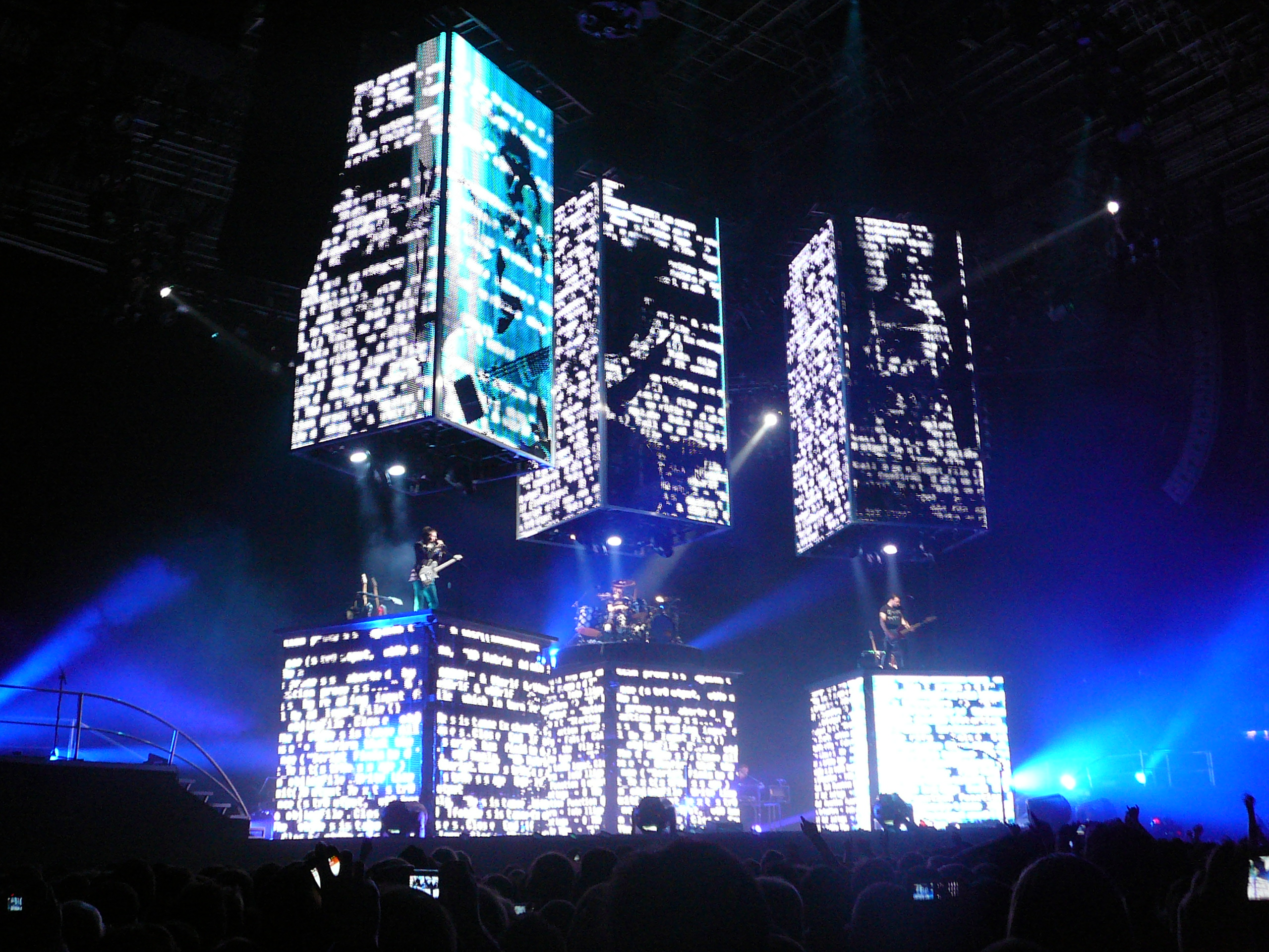 Muse performing Resistance at the National Indoor Arena, Birmingham, UK, as part of The Resistance Tour.